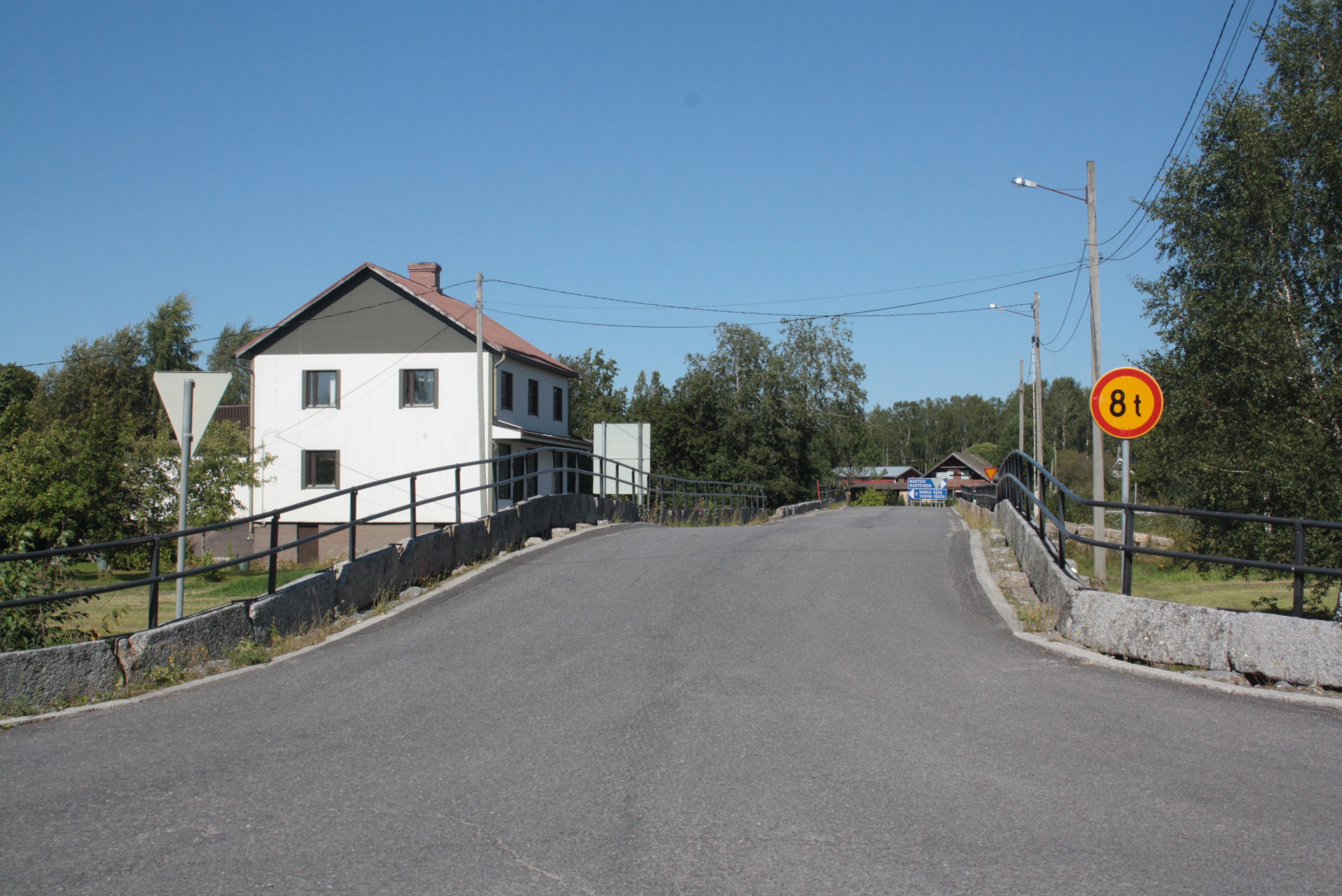 Toby village seen from the southern side of Laihianjoki river in Korsholm.